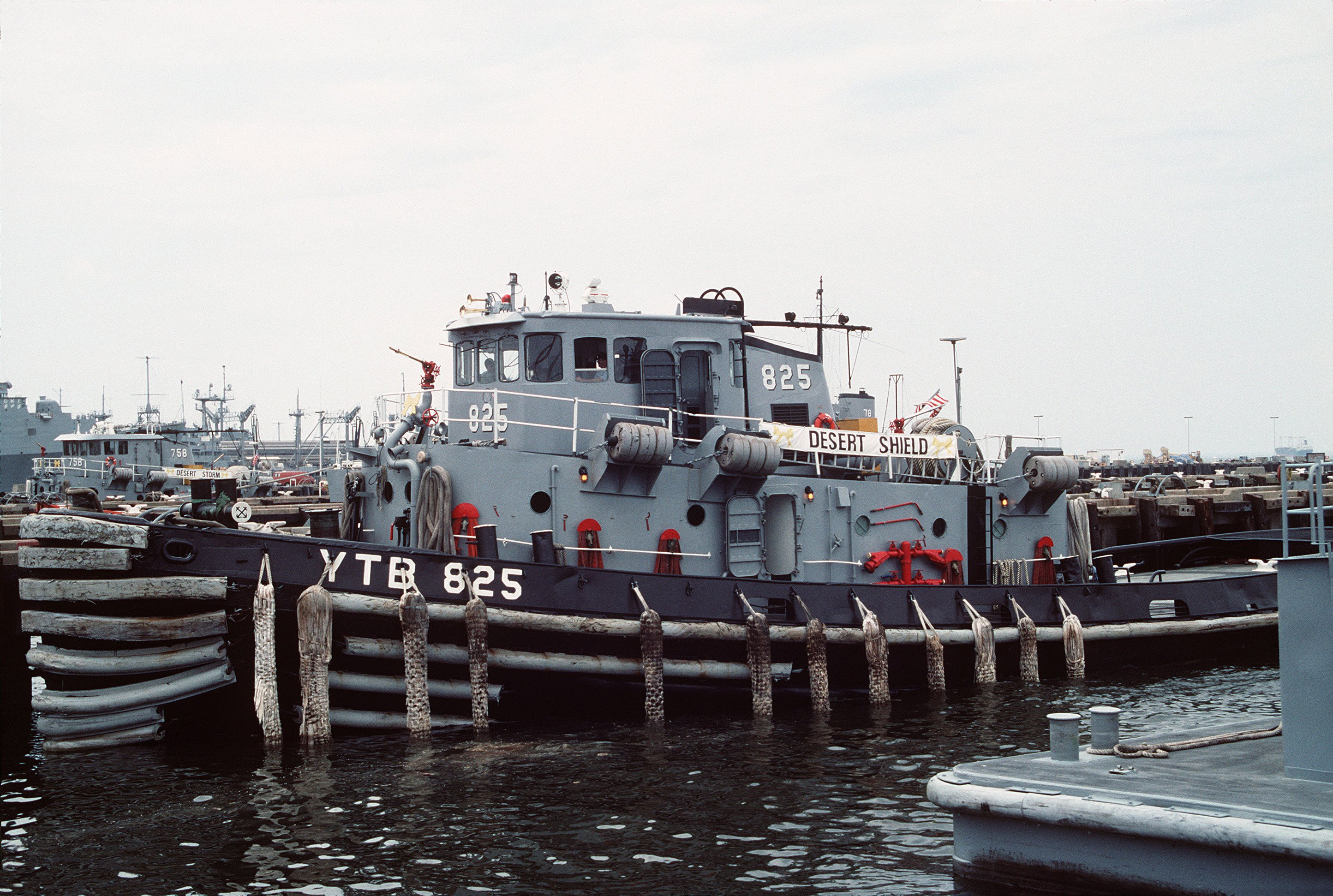 United States Navy large harbor tugs USS Wathena (YTB-825) (foreground) and USS Paducah (YTB-758) (background) tied up at the service craft pier at Naval Station Norfolk, Virginia, awaiting orders to assist with the docking of a large number of ships returning from Operation Desert Shield and Operation Desert Storm.